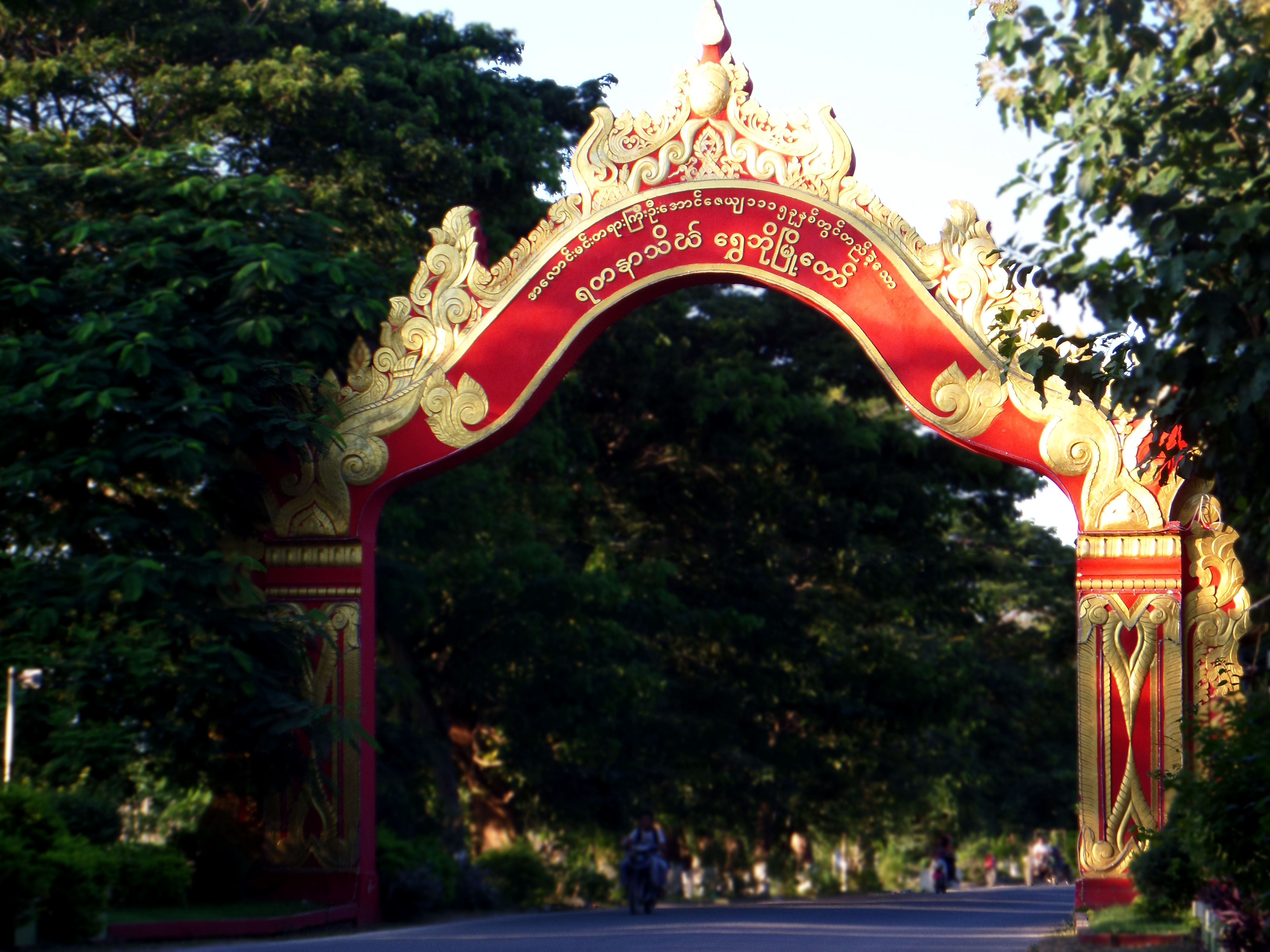 The entrance design of Shwebo. There are many trees and shadow at this time. Now the new design of entrance or mouth or gate is constructing because the new way is wider than older way and also some of the trees are cut down. In my thought, the older entrance is more beautiful. So i upload this for remerence.